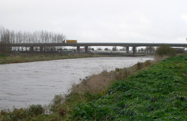 Bridge over the river Clwyd, near to Rhuddlan, Denbighshire/Sir Ddinbych, Wales. The Bridge on the A525 Rhuddlan Bypass, crossing over the Clwyd.